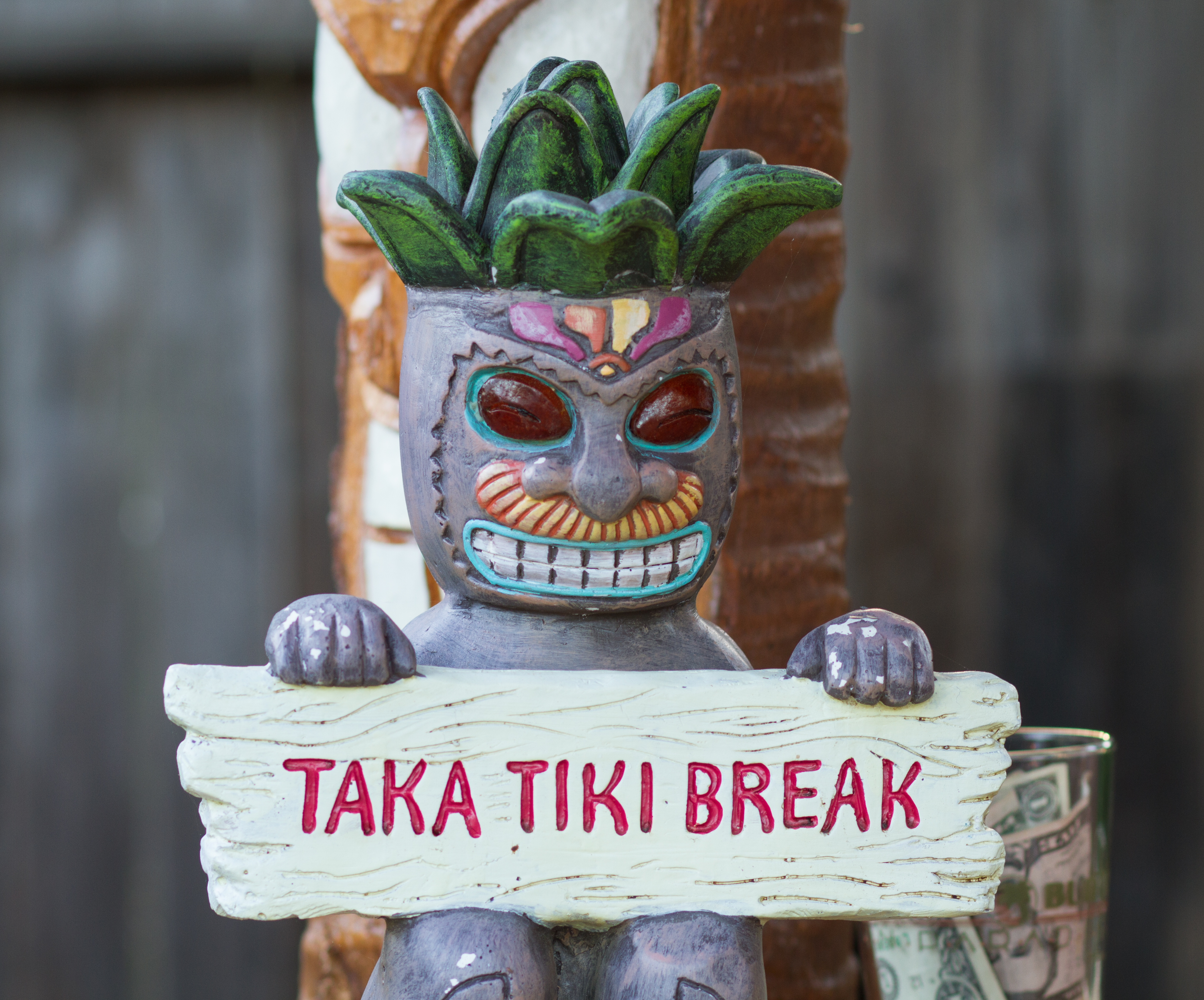 Tiki bar decoration. Private tiki bar in Windsor, Sonoma County, California.